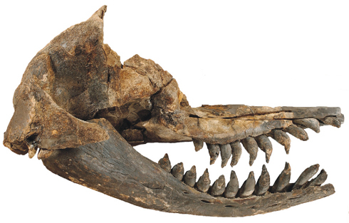 A well preserved skull of Acrophyseter deinodon from the Pisco Formation, Sud-Sacaco, Peru, showing large teeth on both the upper and lower jaw.